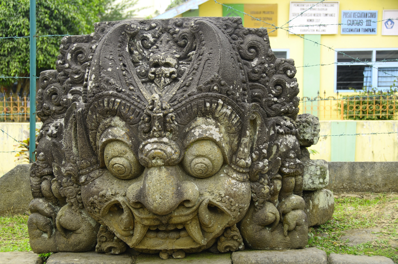 Candi Jago, Tumpang, Malang, Jawa Timur